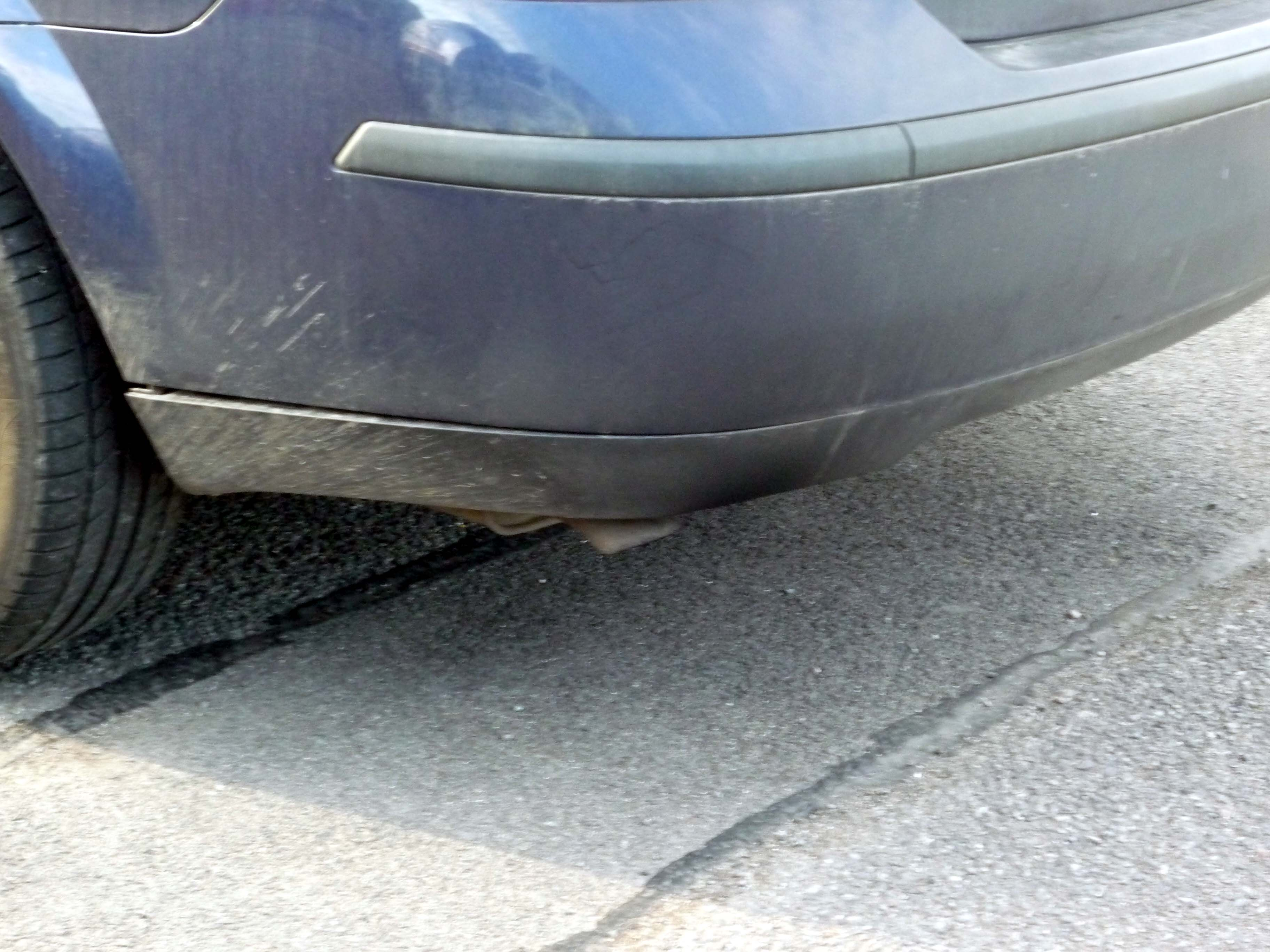 The invisible emissions from a typical car exhaust pipe.